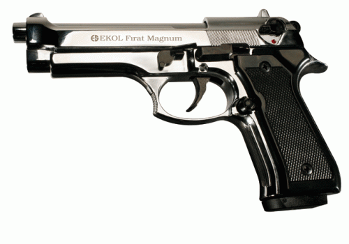 Firat Magnum Shiny